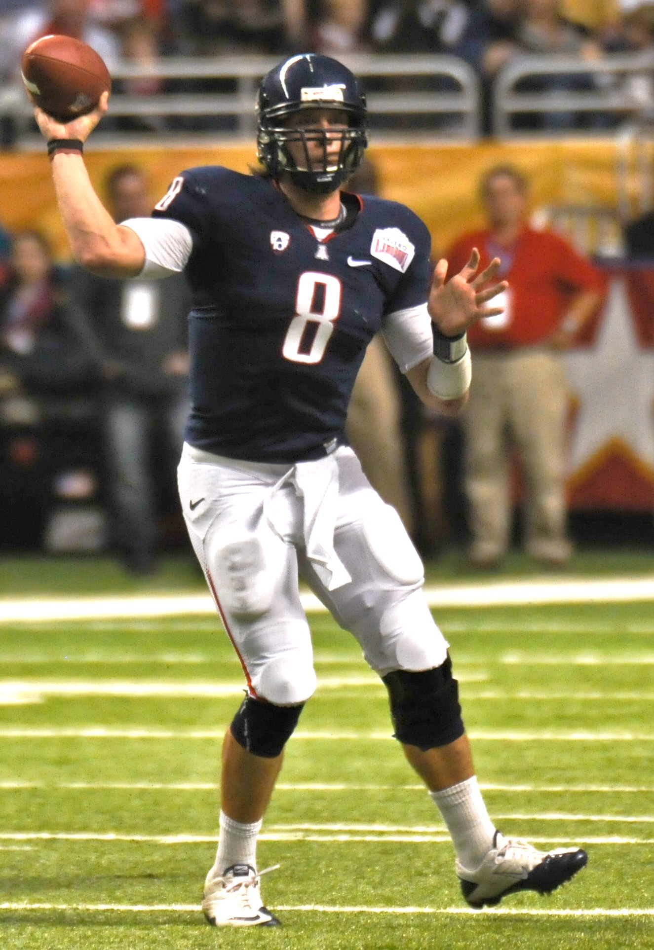 Arizona quarterback Nick Foles prepares to pass the ball during the 2010 Alamo Bowl, Dec. 29, 2010, San Antonio, Tex.